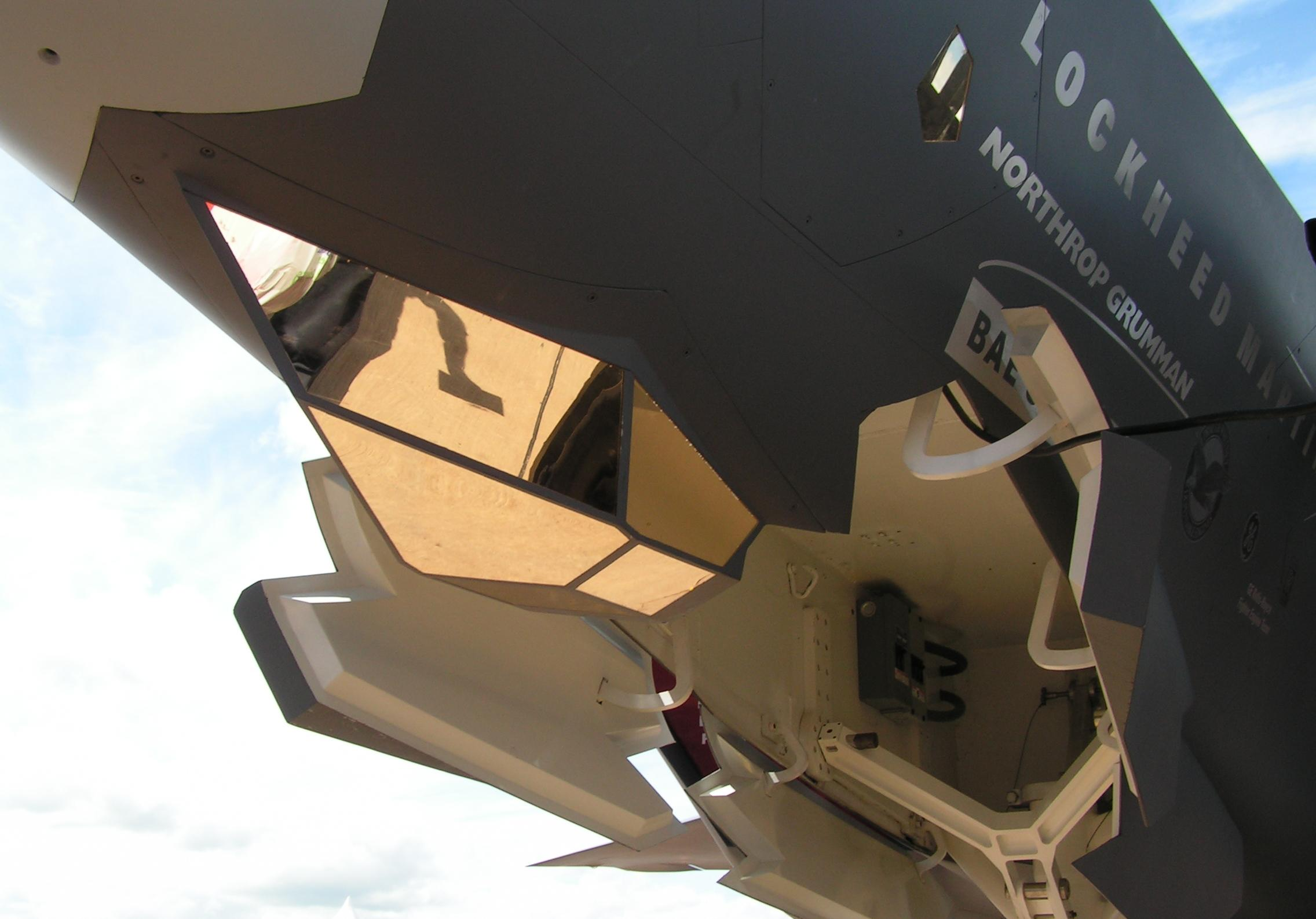 Electro-optical target sensor (EOTS) on a mock-up of the F-35. Photo taken at RIAT 2007.